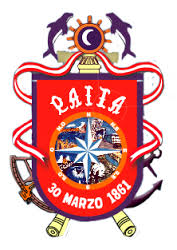 escudo